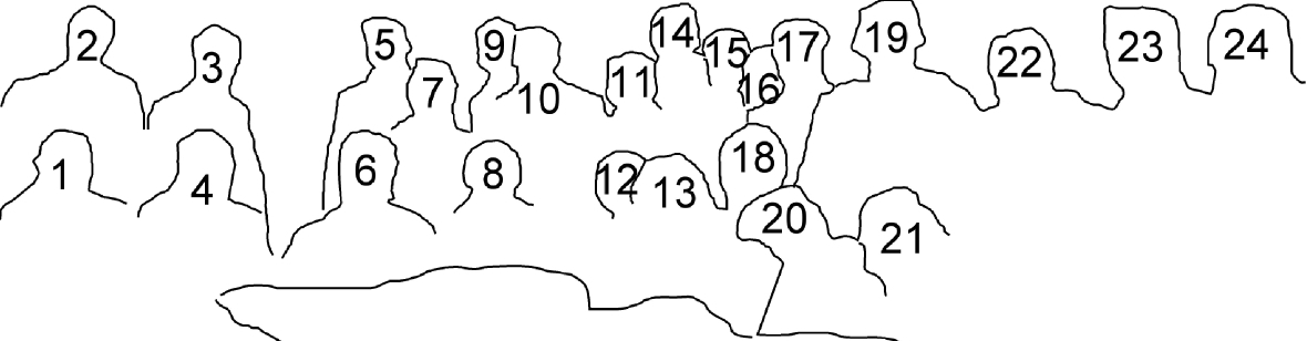 This graphics shows the participants of the first Solvay concference in 1911. It refers to the photograph File:1911_Solvay_conference.jpg